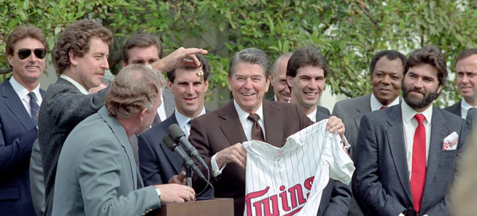 President Ronald Reagan During a Ceremony to Congratulate The Minnesota Twins Baseball Team, Winners of The 1987 World Series and Holding a Minnesota Twins Baseball Jersey in The Rose Garden